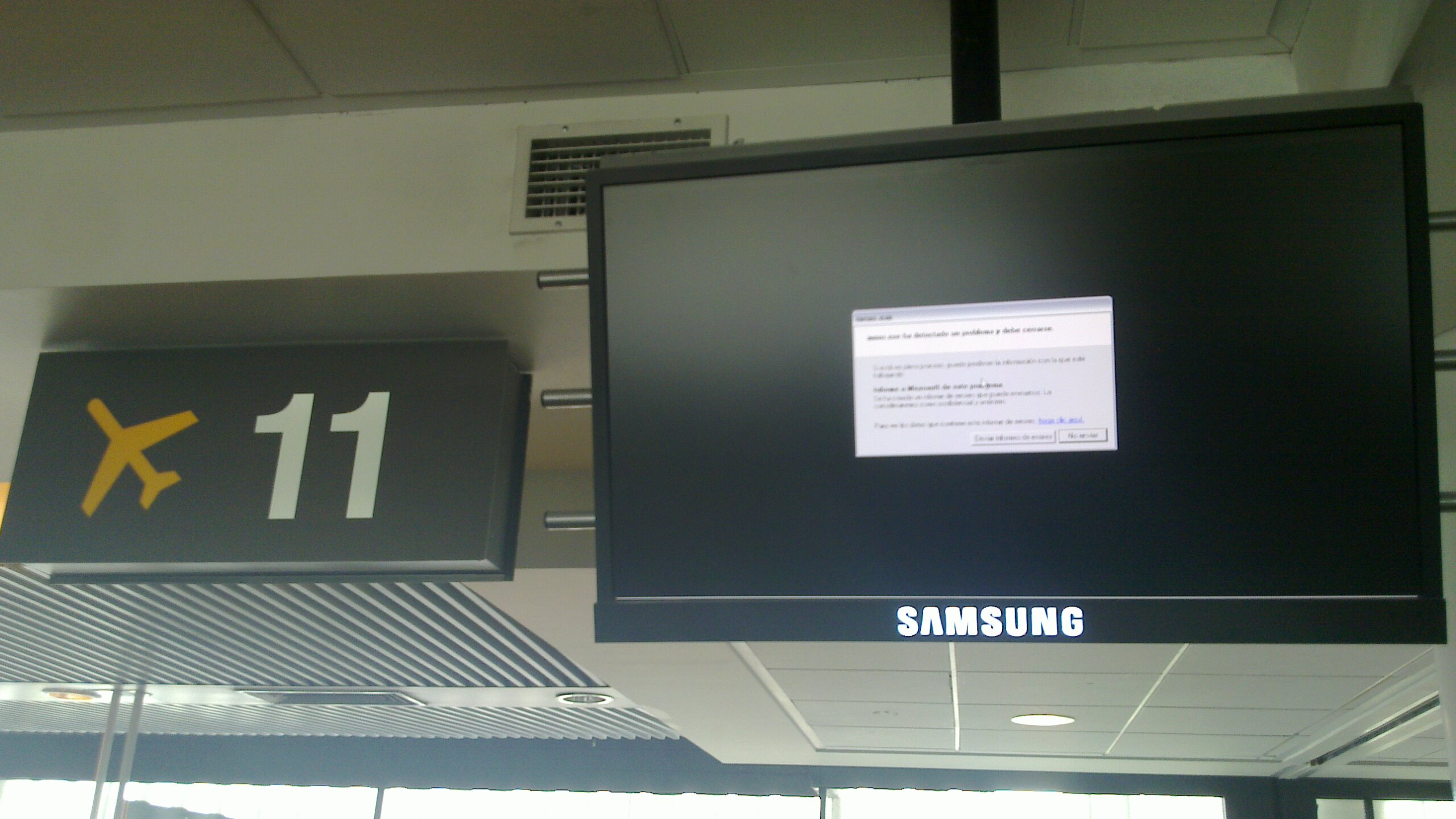 A computer screen with a software error at Gate 11 in Santiago International Airport (SCL). The error message in the window titled mmos.exe starts: "mmos.exe ha detectado un problema y debe cerrarse".